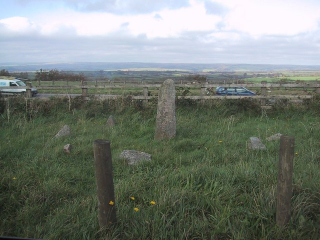 Standing stone by the North Devon Relief Road at Beaple's Moor